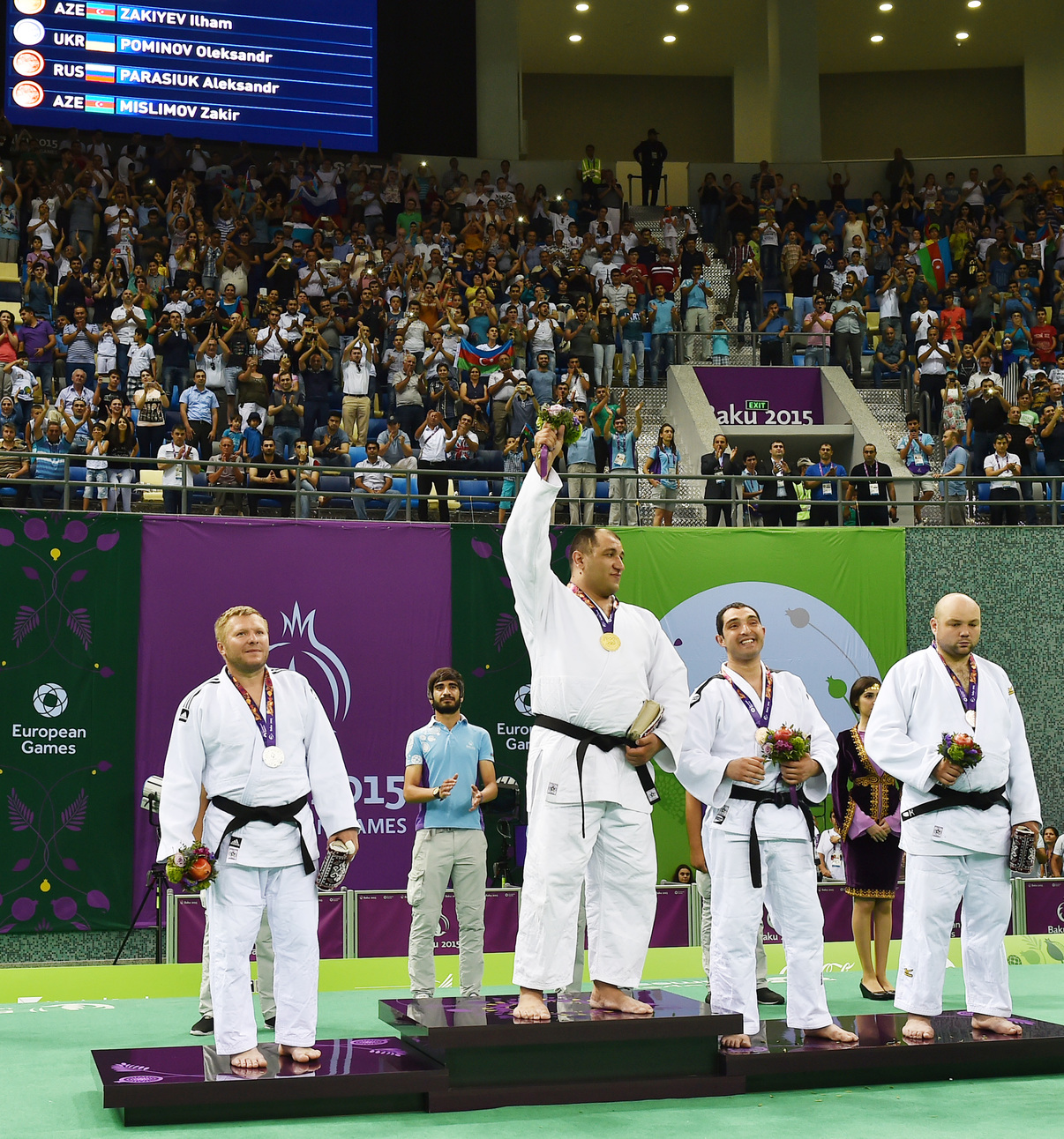 Judo at the 2015 European Games